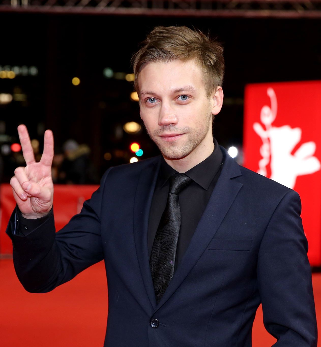 Aleksandr Kuznetsov attending the premiere of "Acid" at the 69th Berlin Film Festival 08.02.2019